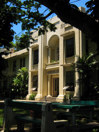 Hibbard Hall (1932), Silliman University